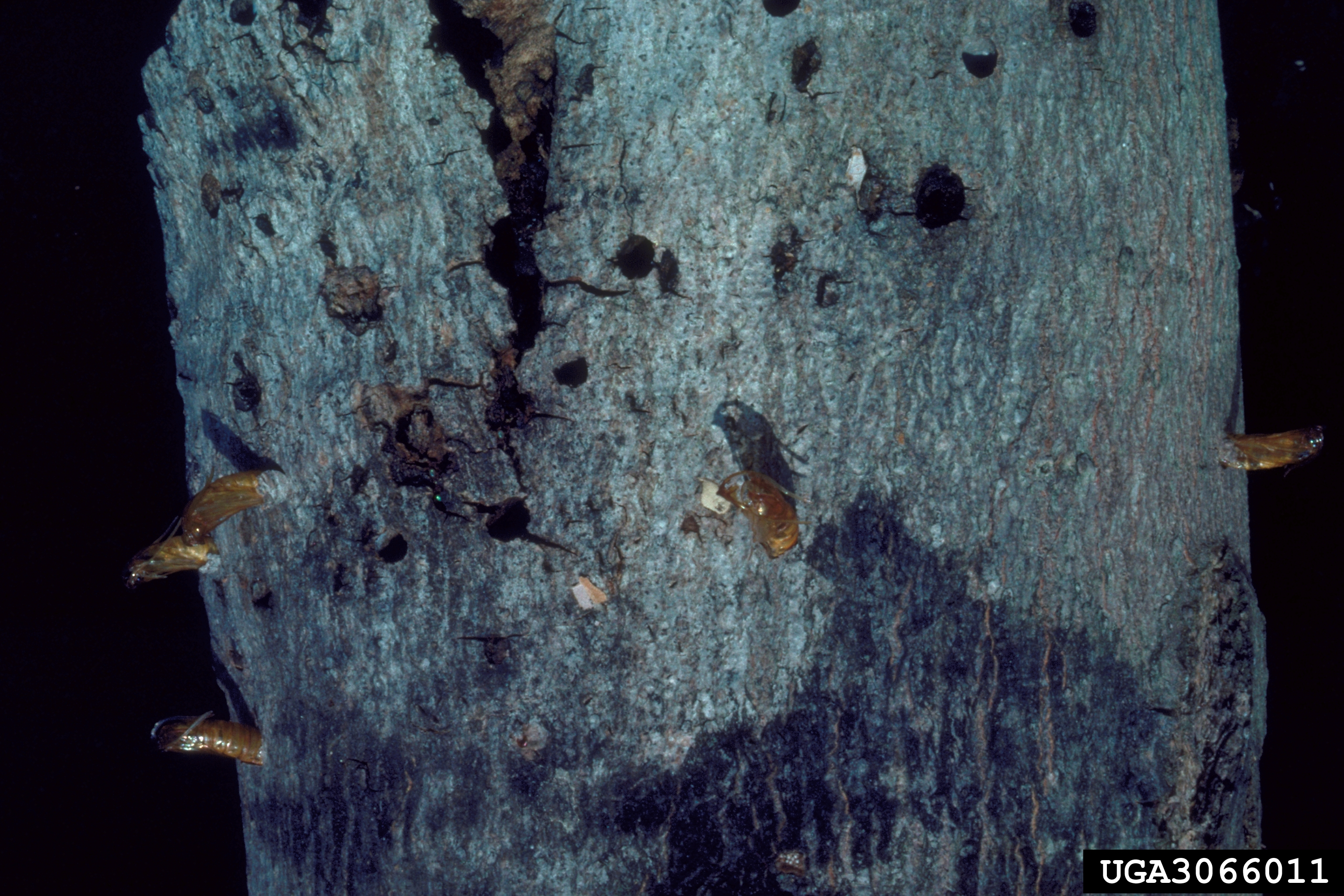 Synanthedon acerni_pupal skins and damage